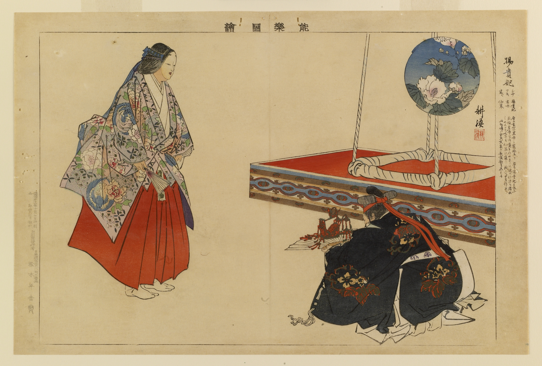 Yokihi (Yang Kuei-fei in Chinese) was the favorite concubine of the Chinese emperor Hsüan-tsung. After her tragic death, the grief-stricken emperor asked a Taoist magician to search for her in the afterworld. Kogyo's print depicts the scene in which the magician, having found Yokihi in the land of the immortals, receives a jeweled hairpin as a memento for the emperor.